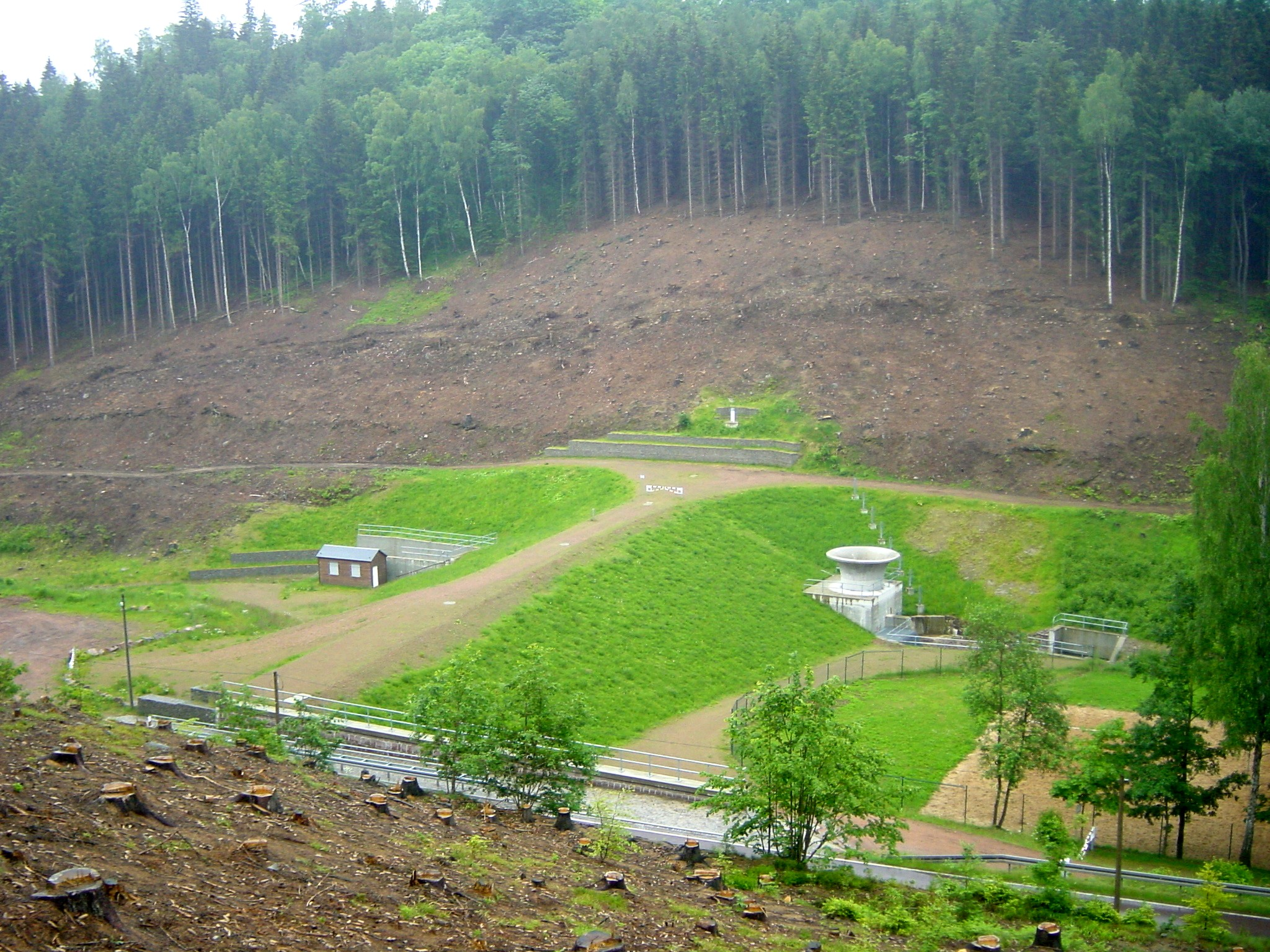 Glashuette retention dam construction site, Saxony, Germany